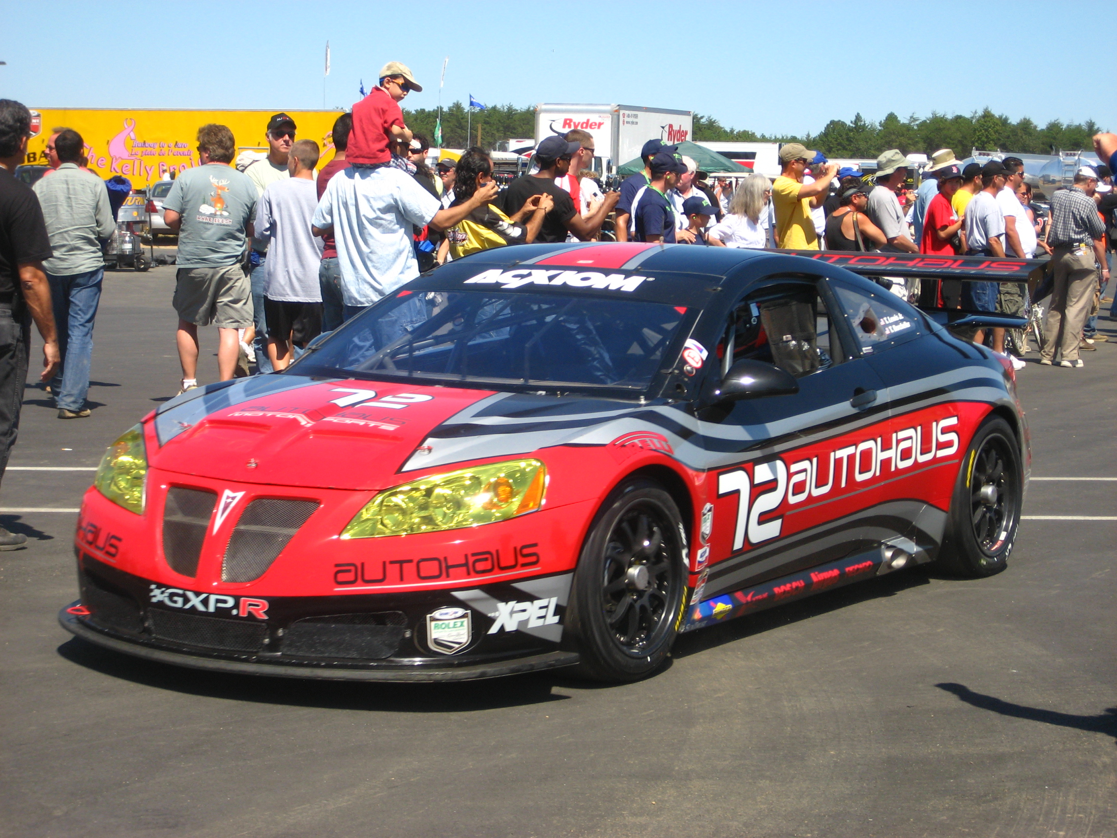 Autohaus Motorsport's Pontiac GXP.R at the 2008 Supercar Life 250 at the New Jersey Motorsports Park.